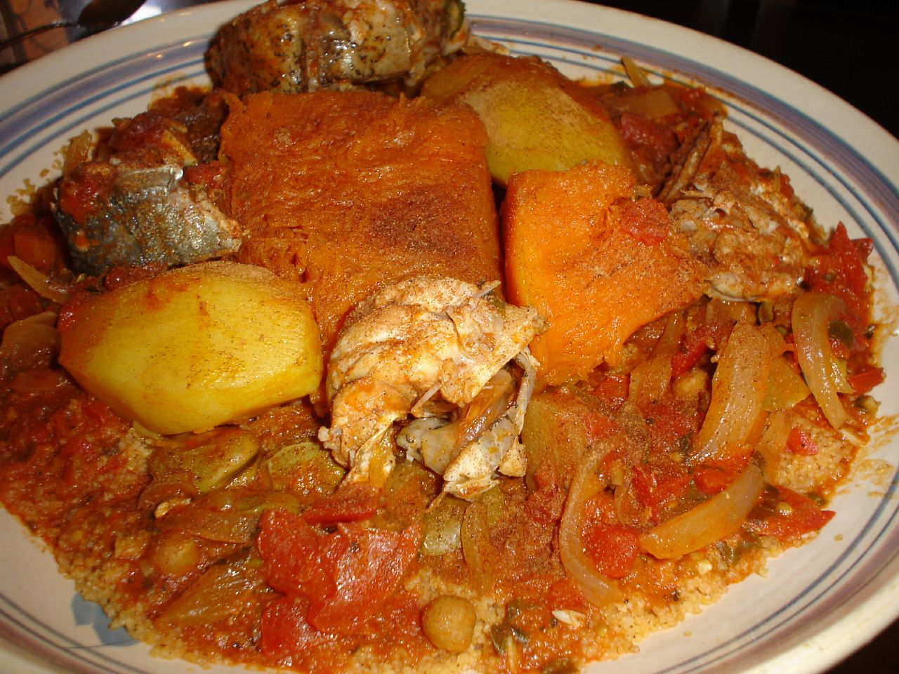 Koskose with Fish